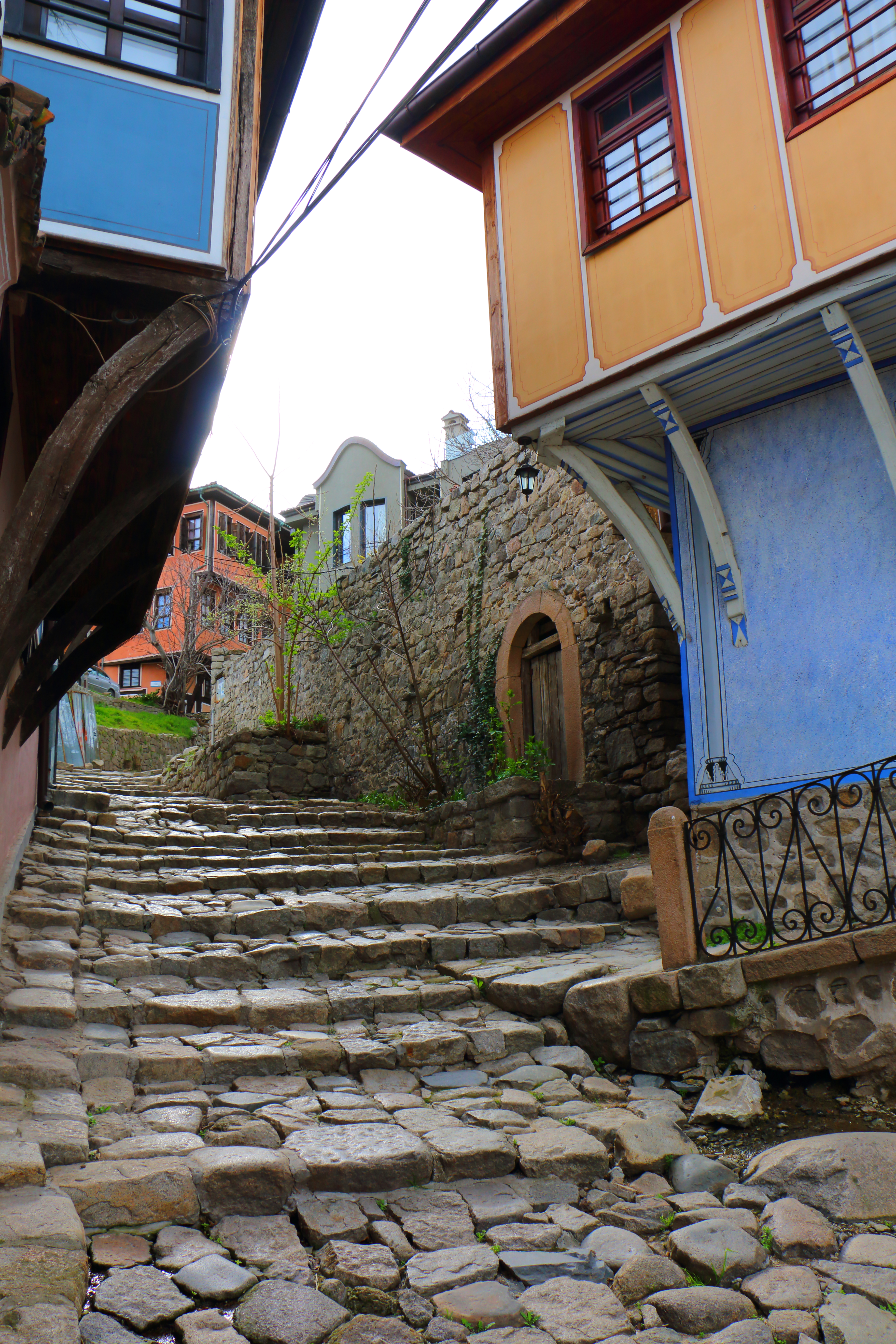 Street in Plovdiv old town